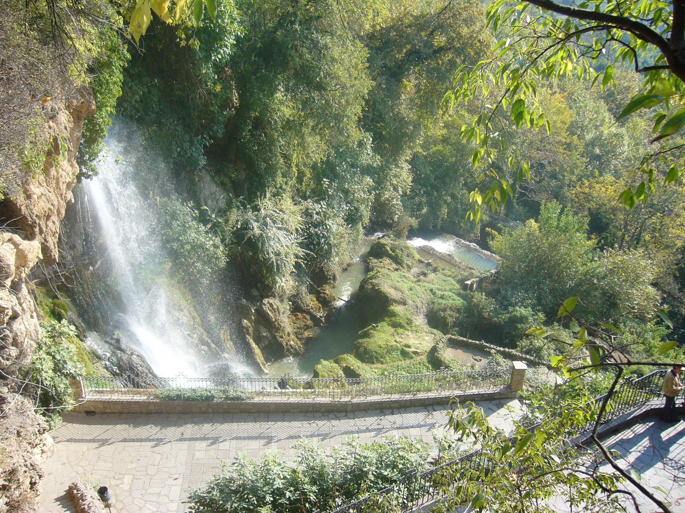 Edessa, Pella prefecture, Greece.